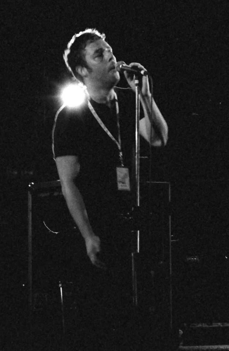 English musician Baxter Dury at the Fuji Rock Festival.